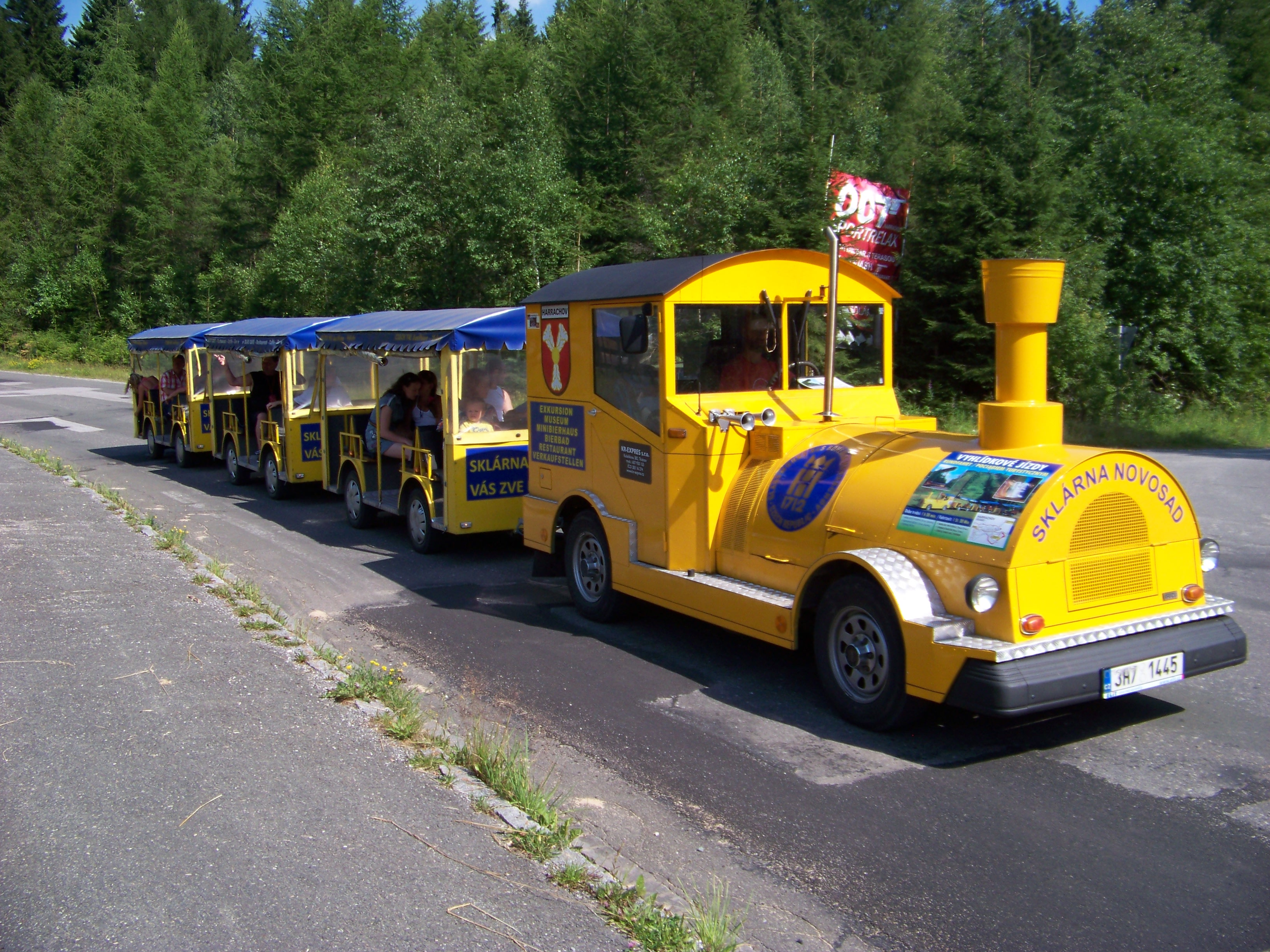 Harrachov, Semily District, Liberec Region, the Czech Republic. A trackless train of the glasswork.